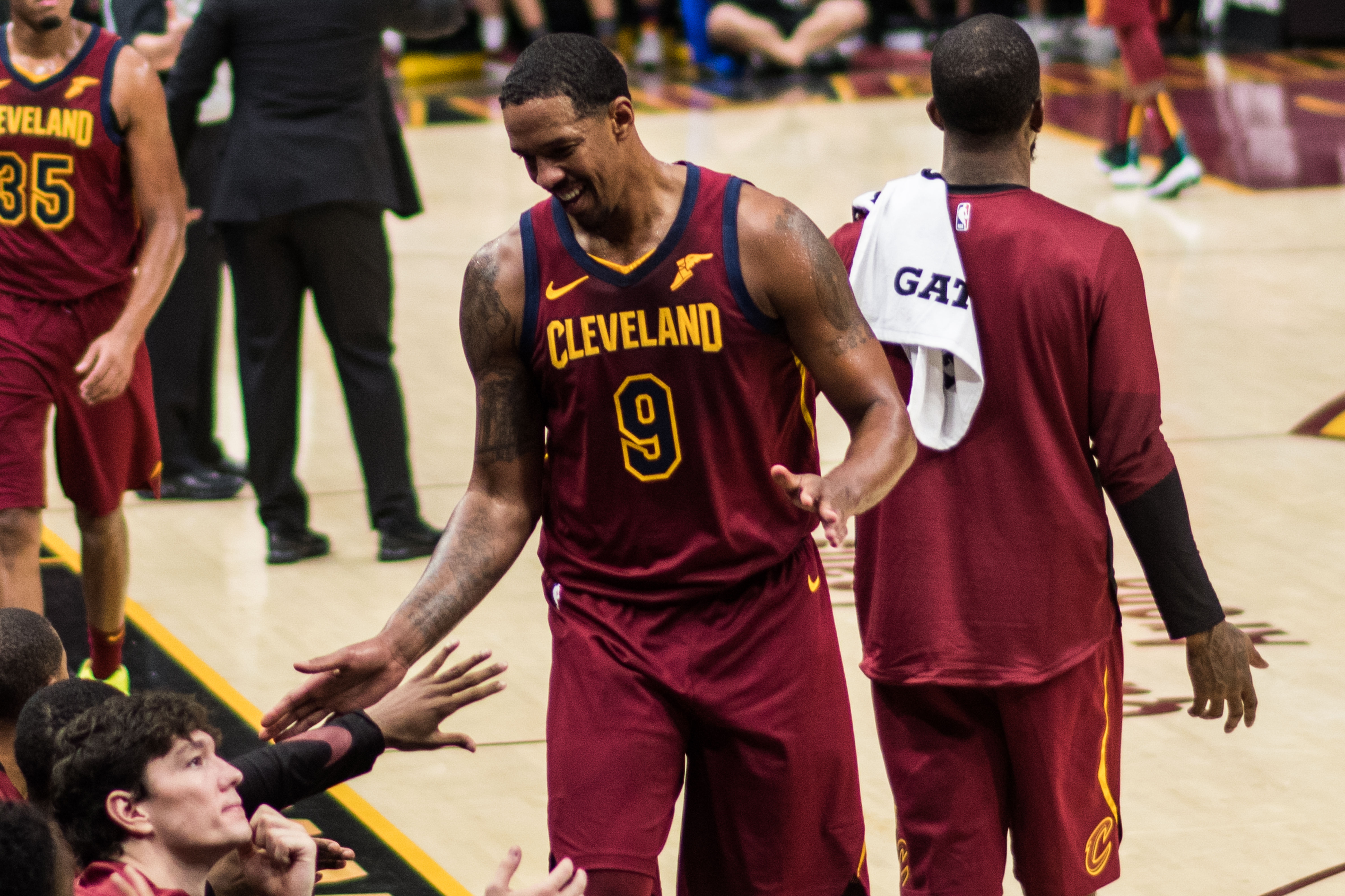 Channing Frye